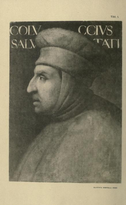 Cristofano Allori dell'Altissimo, Portrait of Coluccio Salutati, 1587, oil on canvas, The Uffizi Gallery, Florence